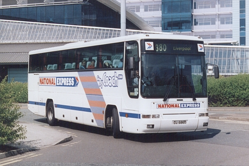 National Express Volvo B10M / Plaxton Premiere coach at Manchester Airport in late April 2003.